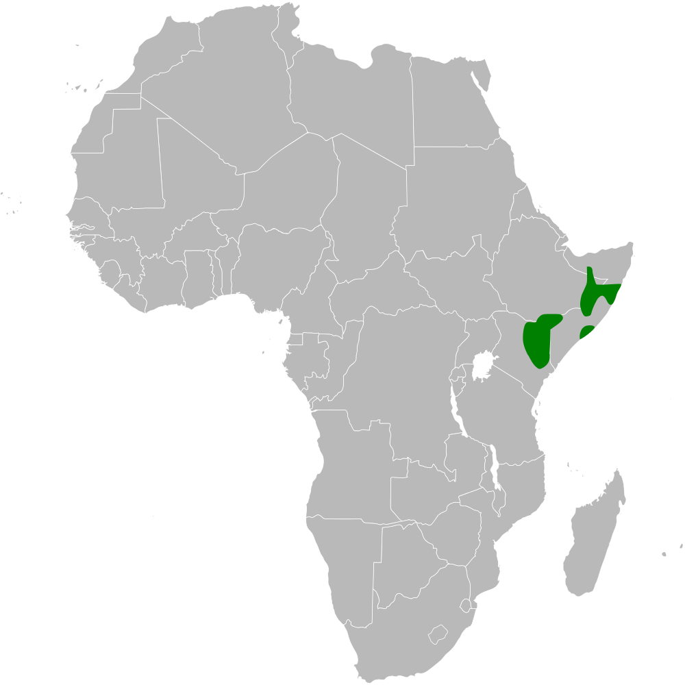 Mirafra collaris distribution map; using BlankMap-Africa.svg, based on